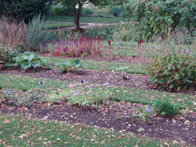 Order beds, Oxford Botanic Garden. The nearest bed has Sedums, the third has Amaranths which include Love Lies Bleeding and plants used as food crops in the Himalayas. Beds arranged systematically by family were laid out here in 1884; recently the arrangement has been changed in accordance with recent advances in molecular biology, in particular by the Angiosperm Phylogeny Group led from Kew Gardens, from Oxford University Botanic Garden.